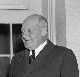 Left to right: Dr. Harry A. Millis, Chair, Department of Economics at the University of Chicago. Millis was part of a fact-finding board appointed by President Franklin D. Roosevelt (pursuant to his powers under the Railway Labor Act) to investigate and make recommendations to the President regarding a major labor dispute. The Chicago Great Western Railroad had demanded a 15 percent wage cut affecting 960,000 workers. The fact-finding board vetoed its request. This photo was taken October 29, 1938, as the board made its report to the President.